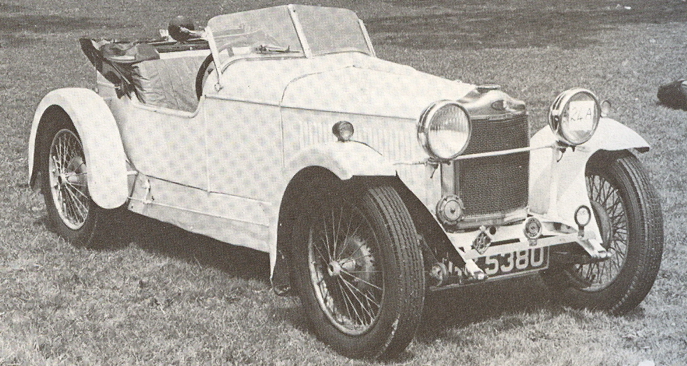 1930 Standard 9 hp Avon Special